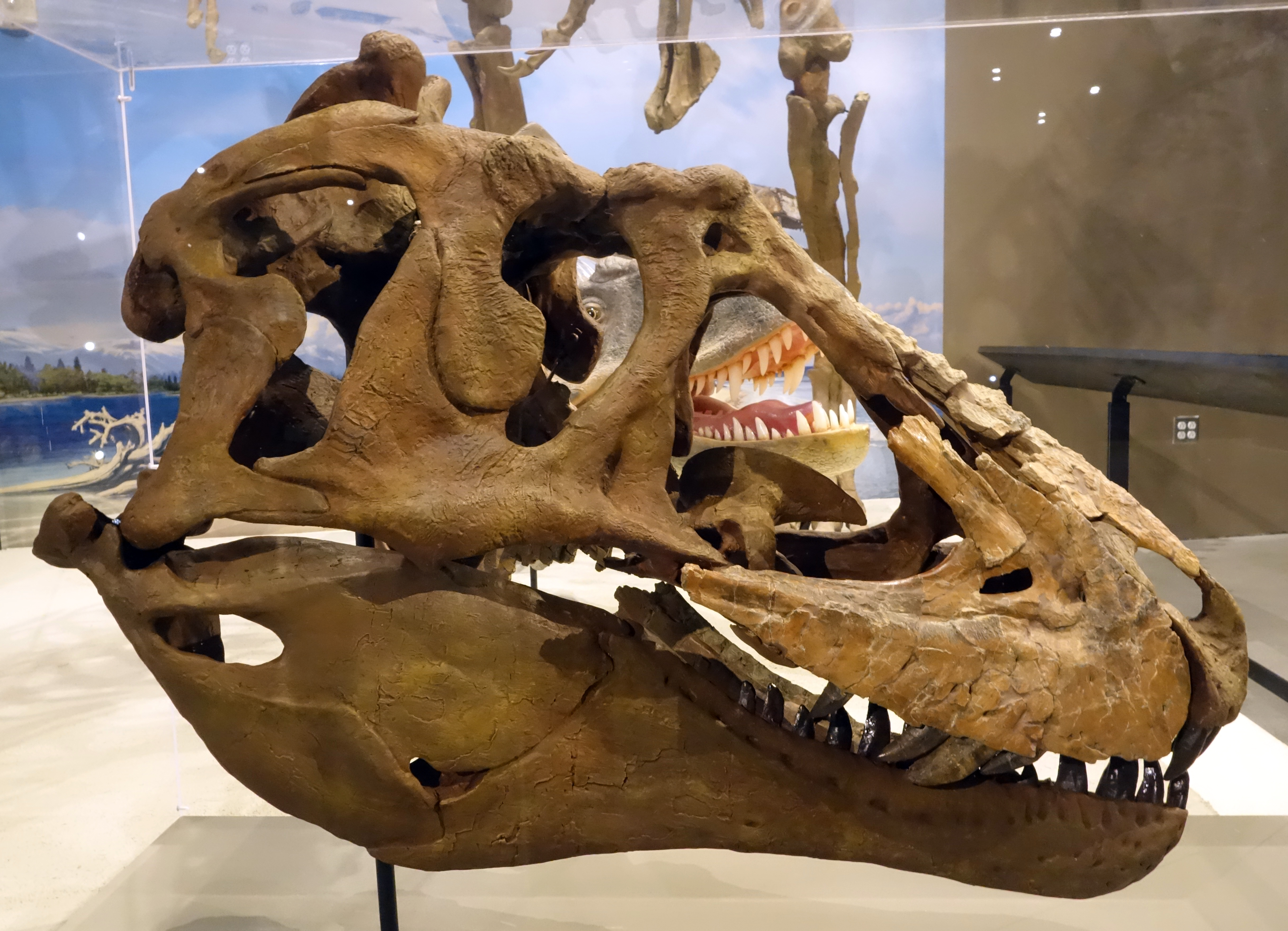 Lythronax skull containing some original bones, on display at the Natural History Museum of Utah, Salt Lake City.